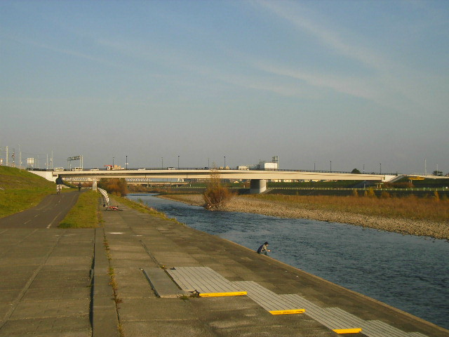 Toyohira River and the Heiwa Ohashi (Heiwa Grand Bridge), Sapporo, Japan